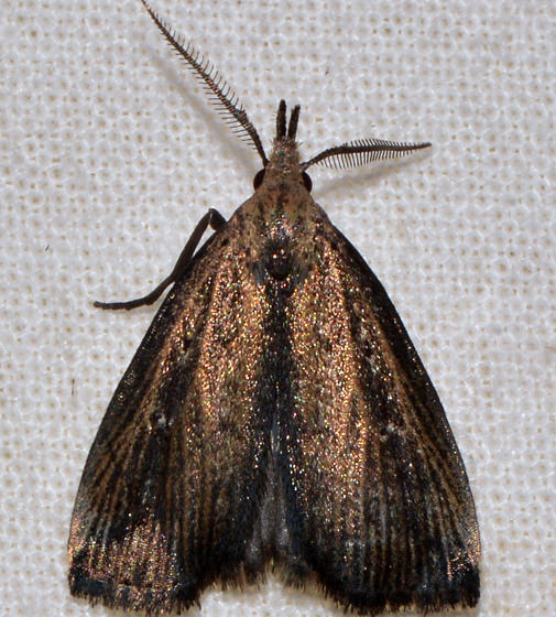 8/3/14 Franklin County Photo and ID thanks to Jack Foreman